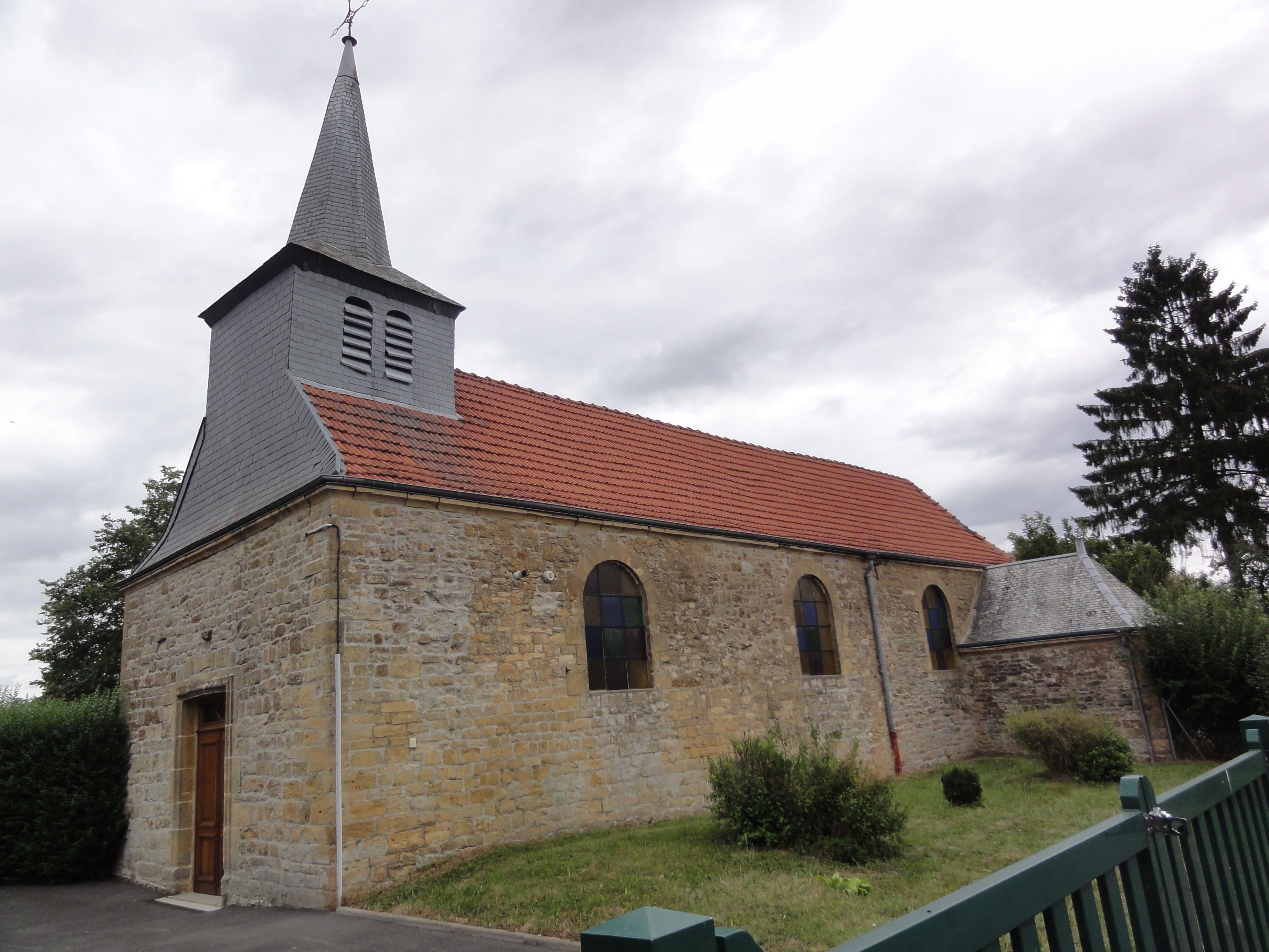 Ham-les-Moines (Ardennes) église